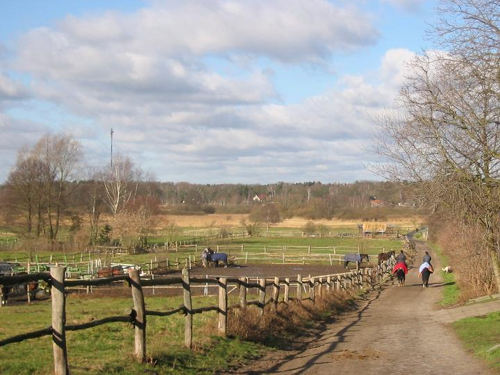 Valley of the Tegeler Fließ (stream) nearby Berlin-Lübars, Germany.